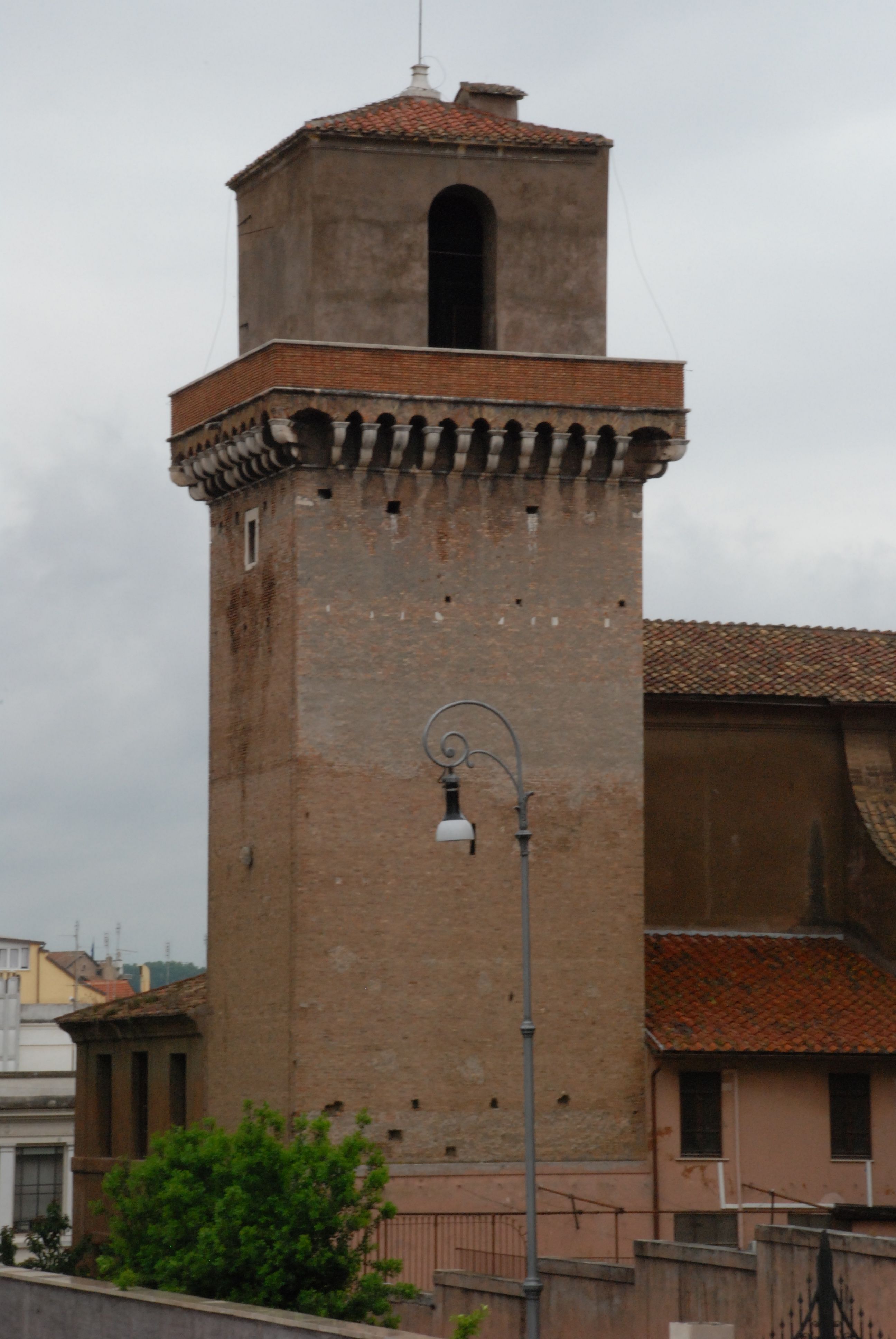 Torre dei Cesarini, usually named Torre dei Borgia on the San Pietro in Vincoli place.